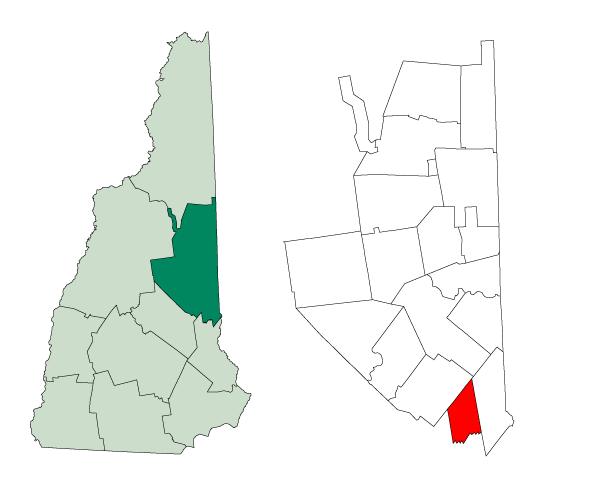 Created from Boundary/Border Outline Files of the Libre Map Project which held a BY-SA creative commons license. Data origionally from 2000 US Census boundary data.